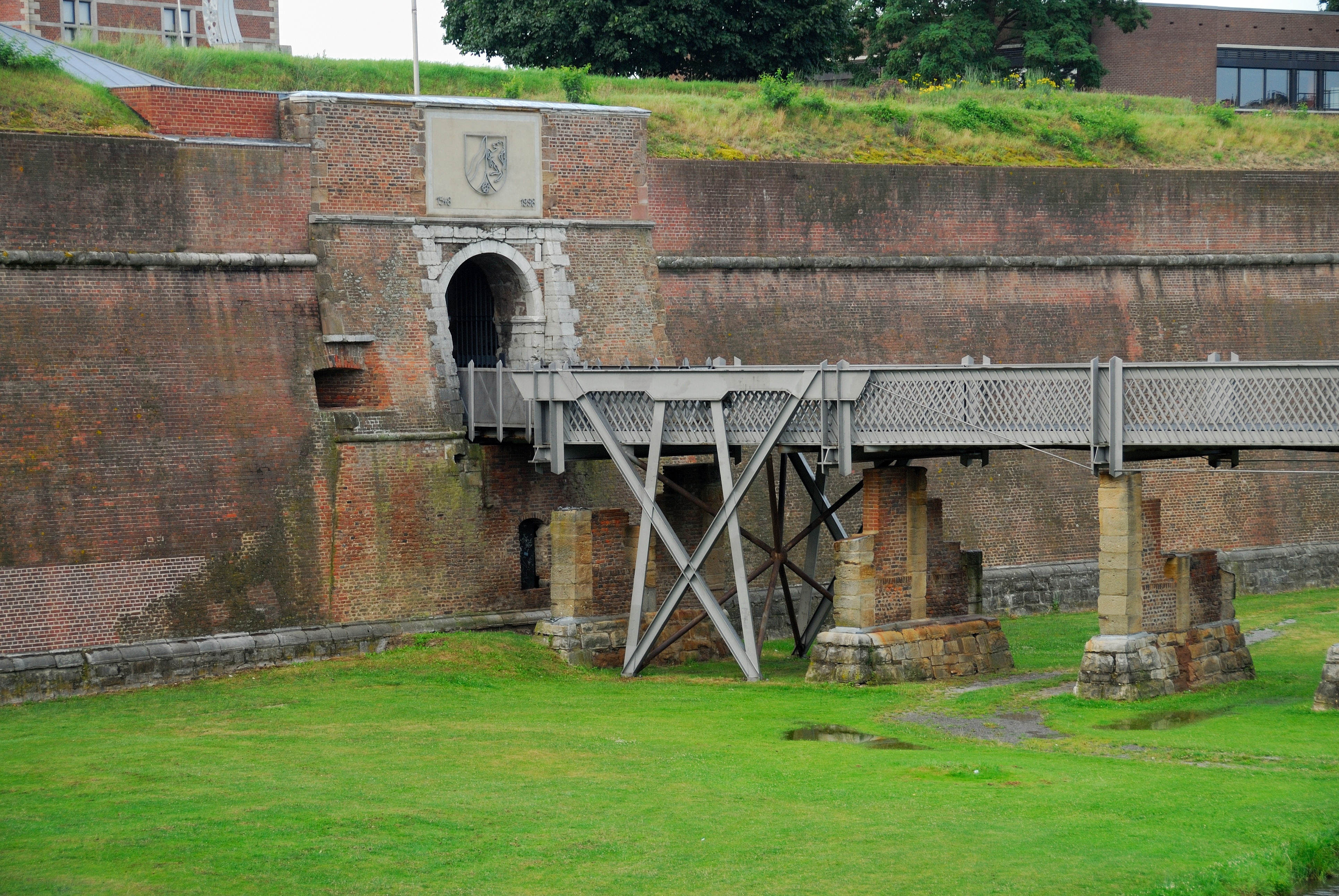 South gate with embrasure left of the door, fortress of Jülich, Düsseldorferstraße This is a photograph of an architectural monument., no. 4